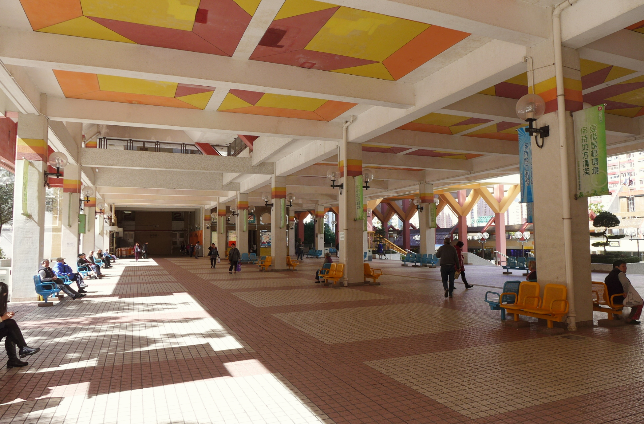 Lok Wah North Estate Open area